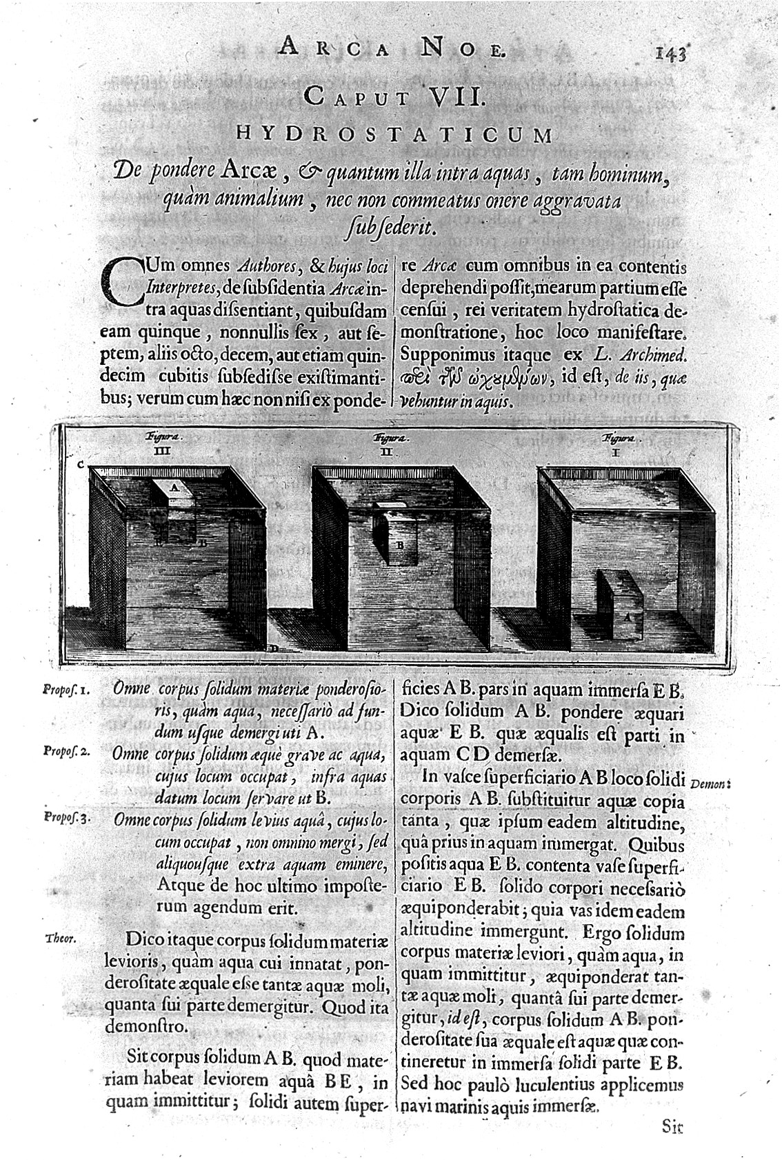 Why ark did not sink. Rare Books Keywords: Athanasius Kircher